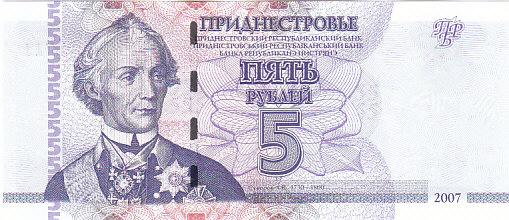 5 Transnistrian rubles